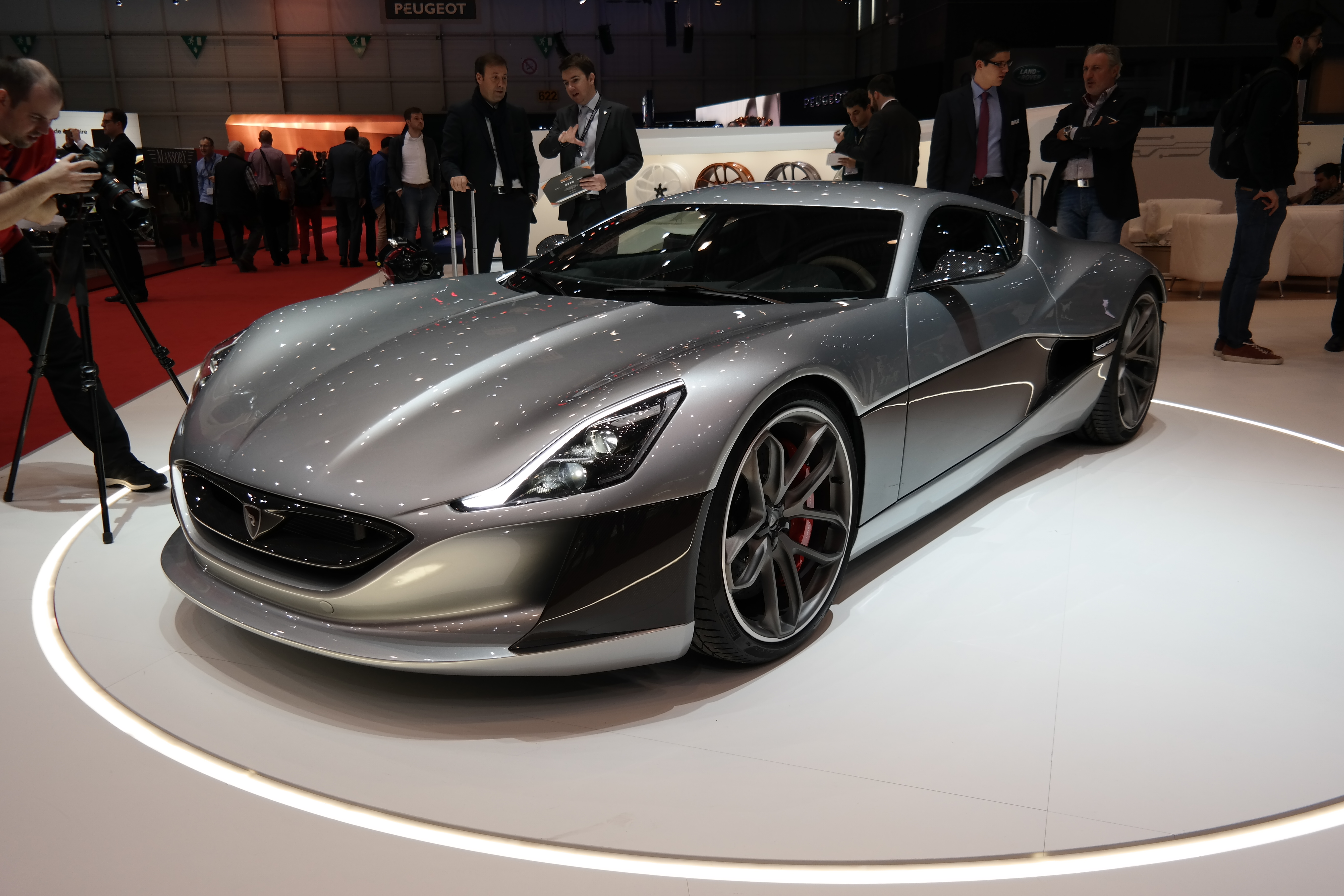 Geneva Motor Show 2016 (photo taken on the first press day)